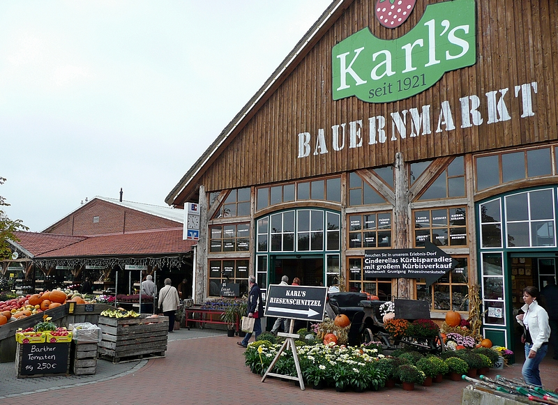 This image shows "Karl´s Erlebnishof", a world of experience in Rövershagen near Rostock.